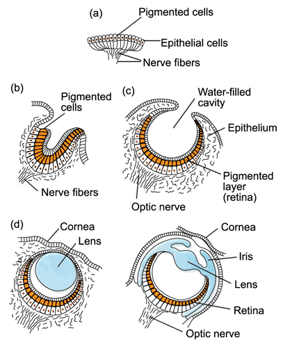 I made it myself, according to "What evolution is" 2001 by Ernst Mayr, Page 206 Automatically converted to PNG The PNG crusade bot automatically converted this image to the more efficient PNG format. The image was previously uploaded as "Stages-in-the-evolution-of.gif". Previous file history 03:15:40, 24 February 2007 (UTC) . . Fakten (Talk